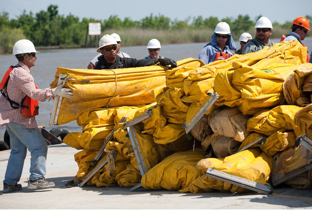 VENICE, La. - Contracted workers from U.S. Environmental Services organize boom for deployment at the Venice, La., staging area Thursday, April 29, 2010. Staging areas have been placed in areas so quick deployment of assets and personnel could be utilized to protect environmentally sensitive areas. Photo by Marc Morrison